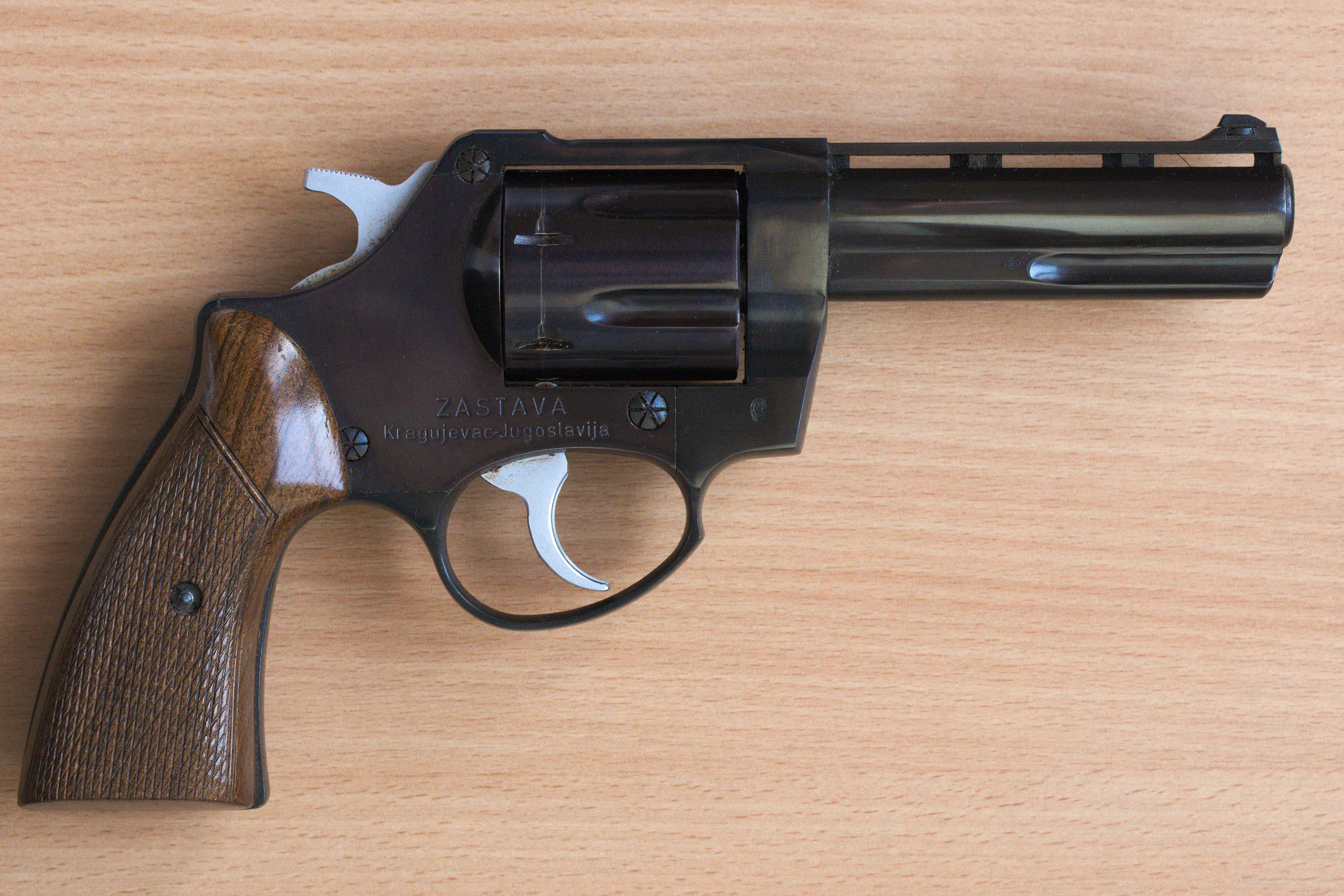 Zastava Magnum 357 (M83 revolver) This photograph was taken with a Panasonic Lumix DMC-G85/G80.